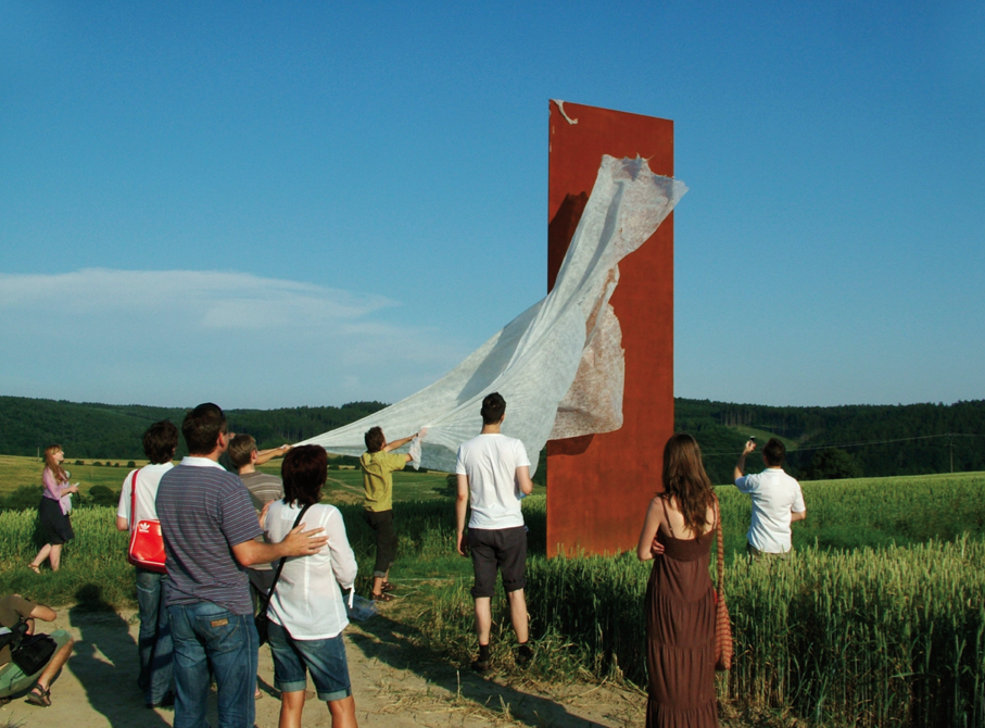 Kačírková, Kaple I, odhalování 30.6. 2010